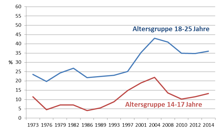 Lifetime prevalence for cannabis consumption in German adolescents and young adults, 1973-2014